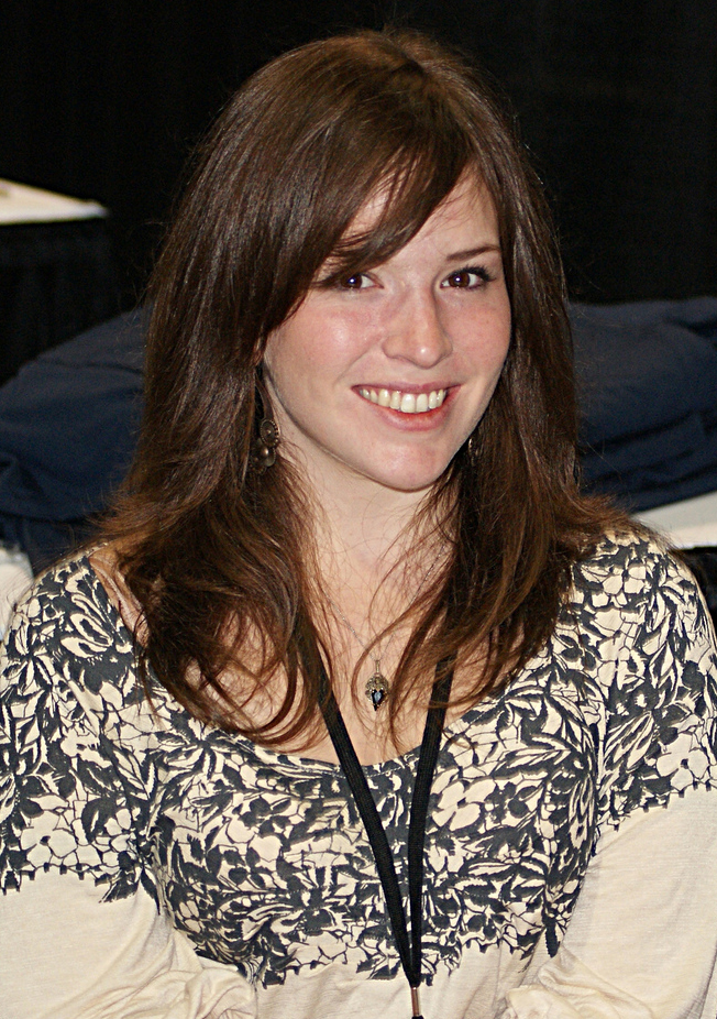 Kate Beaton attending the Calgary Comic & Entertainment Expo in BMO Centre, Calgary, Alberta, Canada.